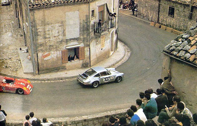 Porsche 911 Callera RSR (#107, Günter Steckkönig / Pucci; Martini Racing) and Chevron B21 Ford (#42, Piero Monticone / Giovanni Boeris) at Targa Florio on 13 May 1973, Collesano.[1]